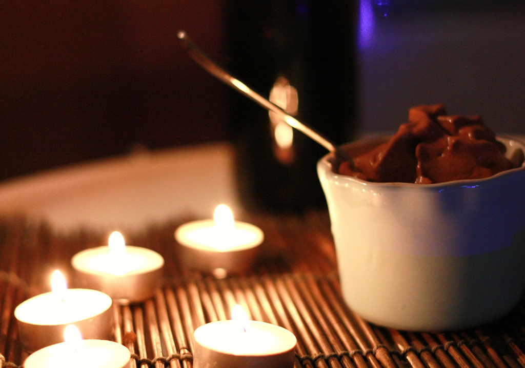 Raw Chocolate Winter Ice Cream